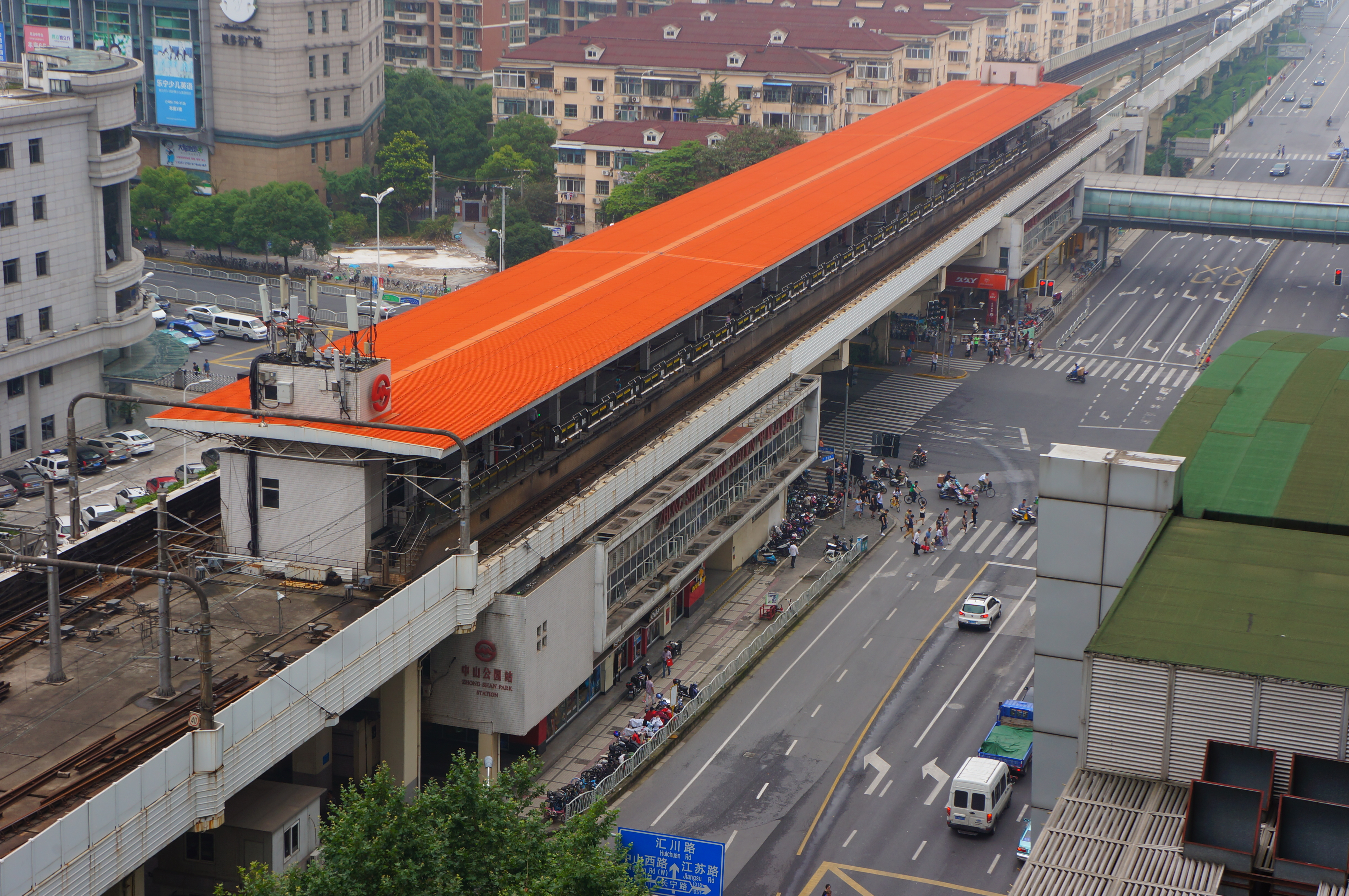 201706 Station Building of Zhongshan Park Station, alongside with Kaixuan Road.